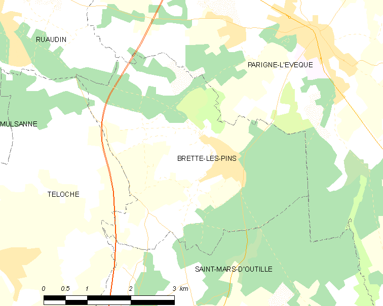 Map of French municipality